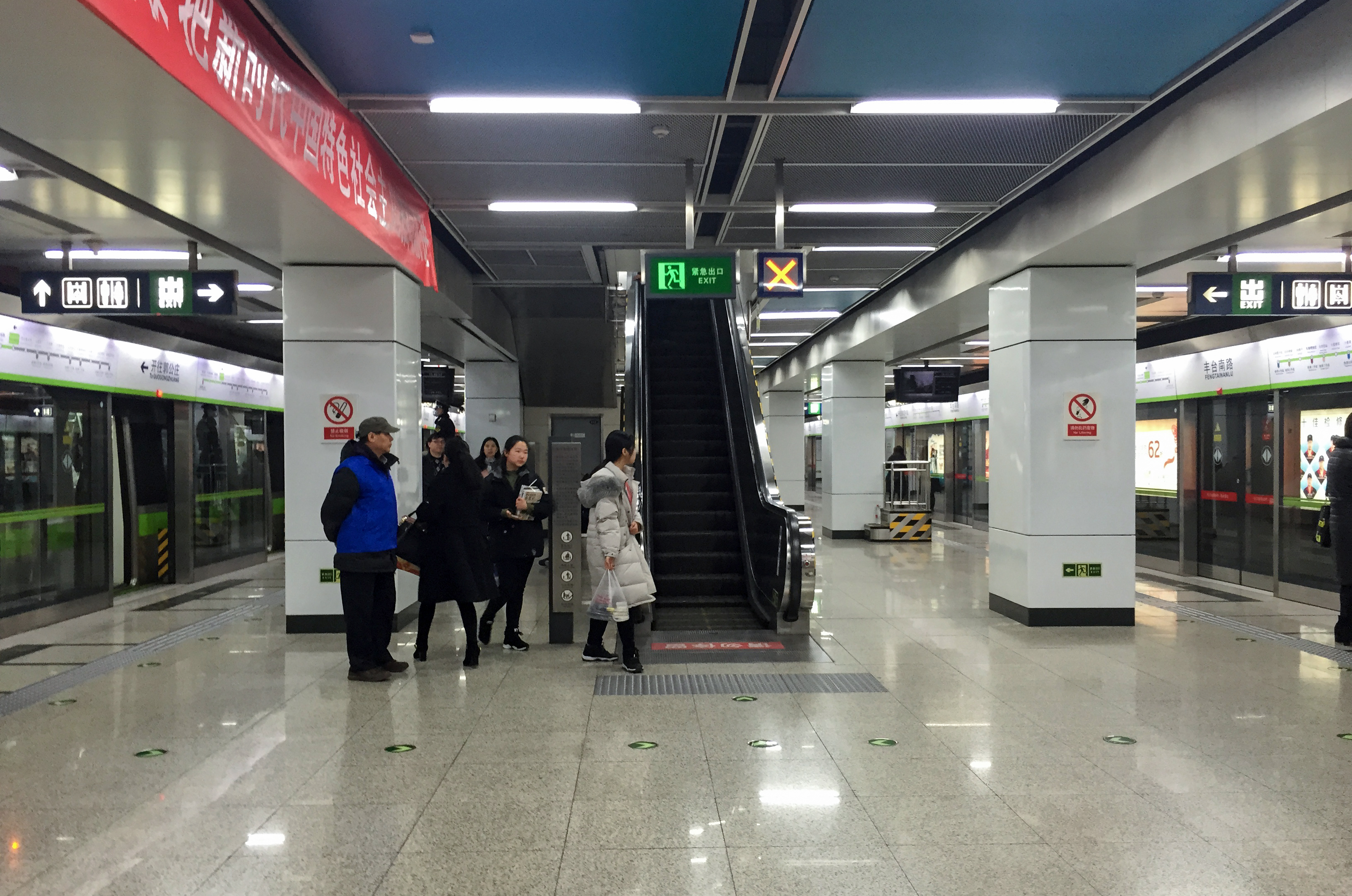 L9 is light green, while L16 is foliage green...